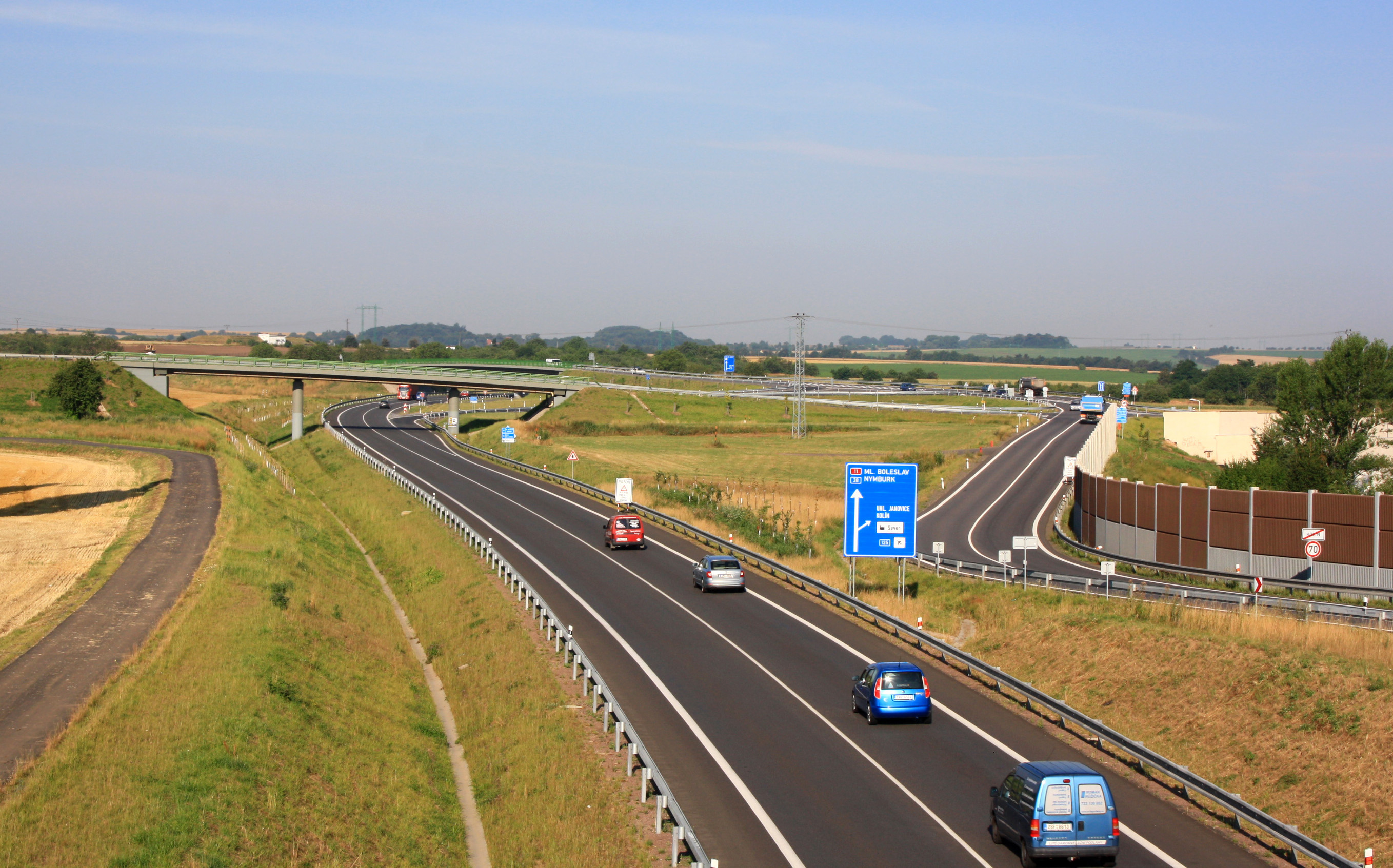 Road No 38 by Kolín, Czech Republic